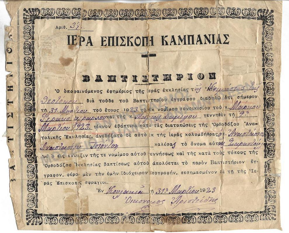 Kampania Episcopy Document